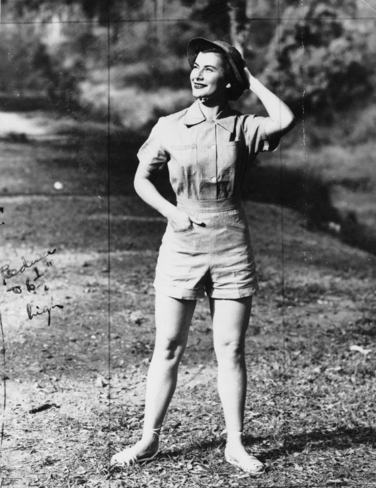 Young woman modelling a short pantsuit, Brisbane, 1952 The model wears a short-sleeved, collared blouse with front patch pockets, teamed with a pair of high-waisted, tailored shorts with slit pockets. She also wears a cloth hat and a pair of high-ankled sandals. This style is typical of the post-war period in women's clothing, when man-style shirts, shorts and pants became popular in women's fashion.